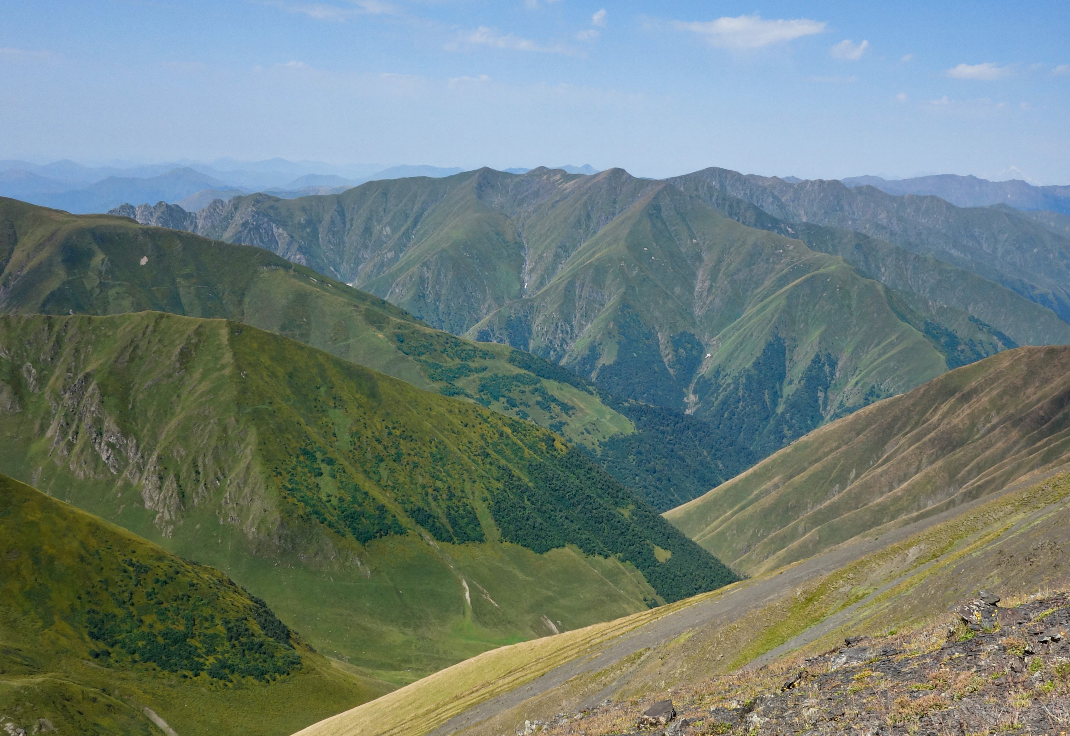 Mount Kochara (right of the center, 3,111 m) and Speroza Range as seen from the vicinity of Didgverdi, Kakheti, Georgia